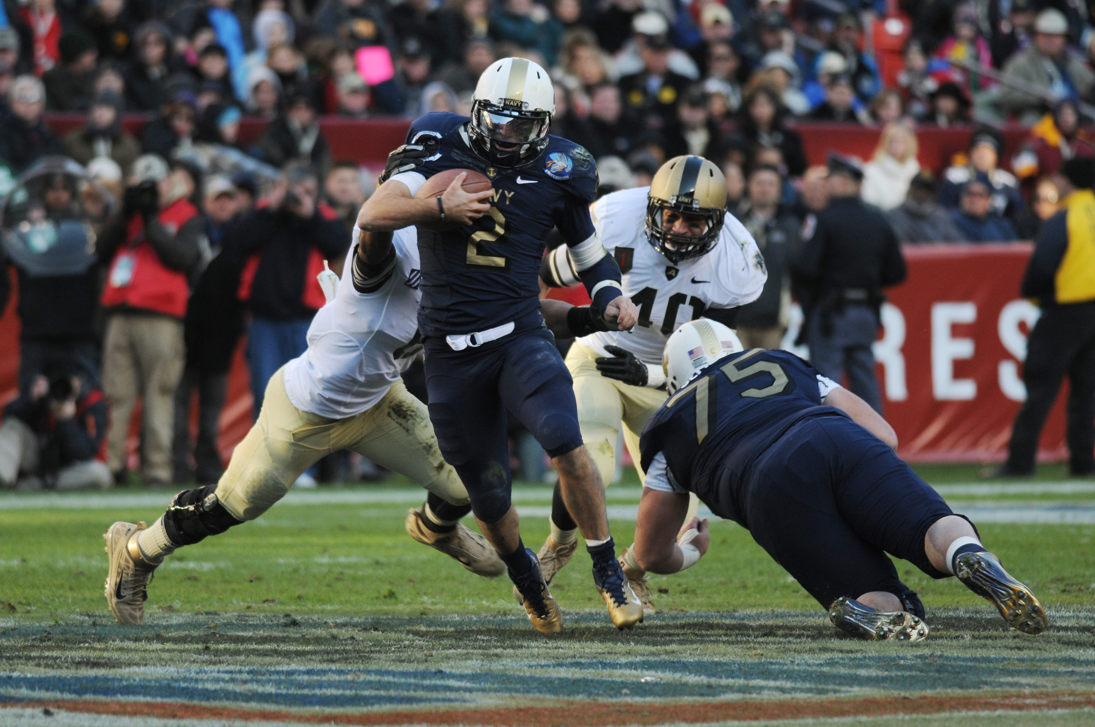 LANDOVER, Md.(Dec. 10, 2011) U.S. Naval Academy quarterback (#2) Kriss Proctor runs the ball during the 112th Army-Navy Football game at FedEx Field in Landover, Md. The Midshipmen have won the previous nine meetings. (U.S. Navy photo by Mass Communication Specialist 1st Class Chad Runge/Released)